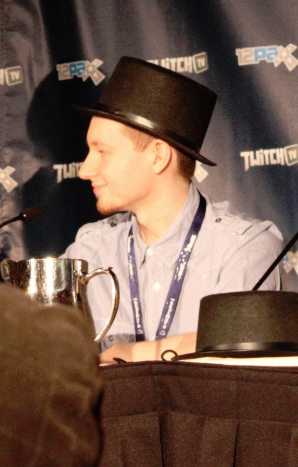 Dinnerbone at PAX Prime 2012